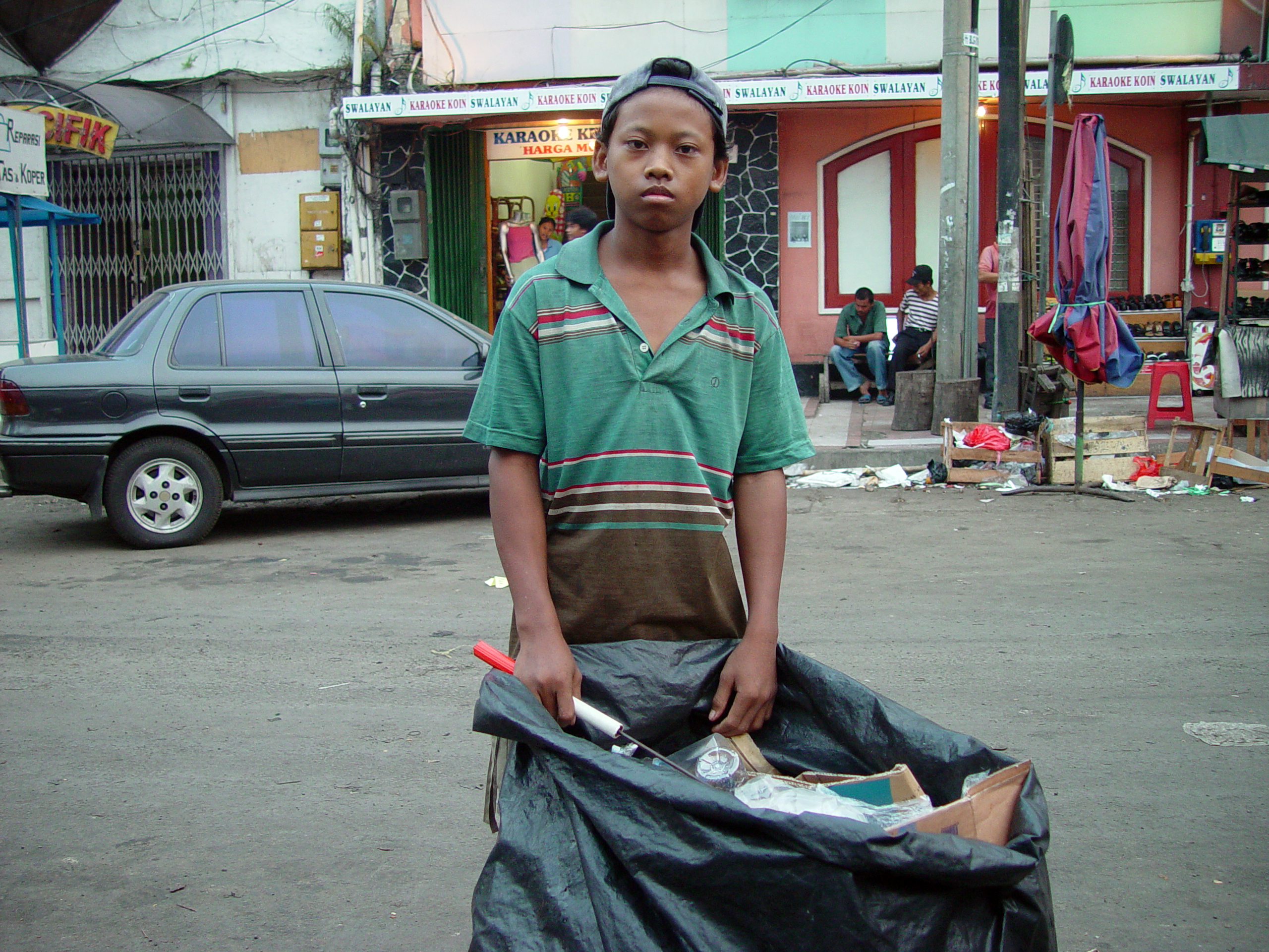 Slum life, Jakarta Indonesia.